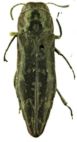 Agrilus celebicola Obenberger 1924, lectotype.